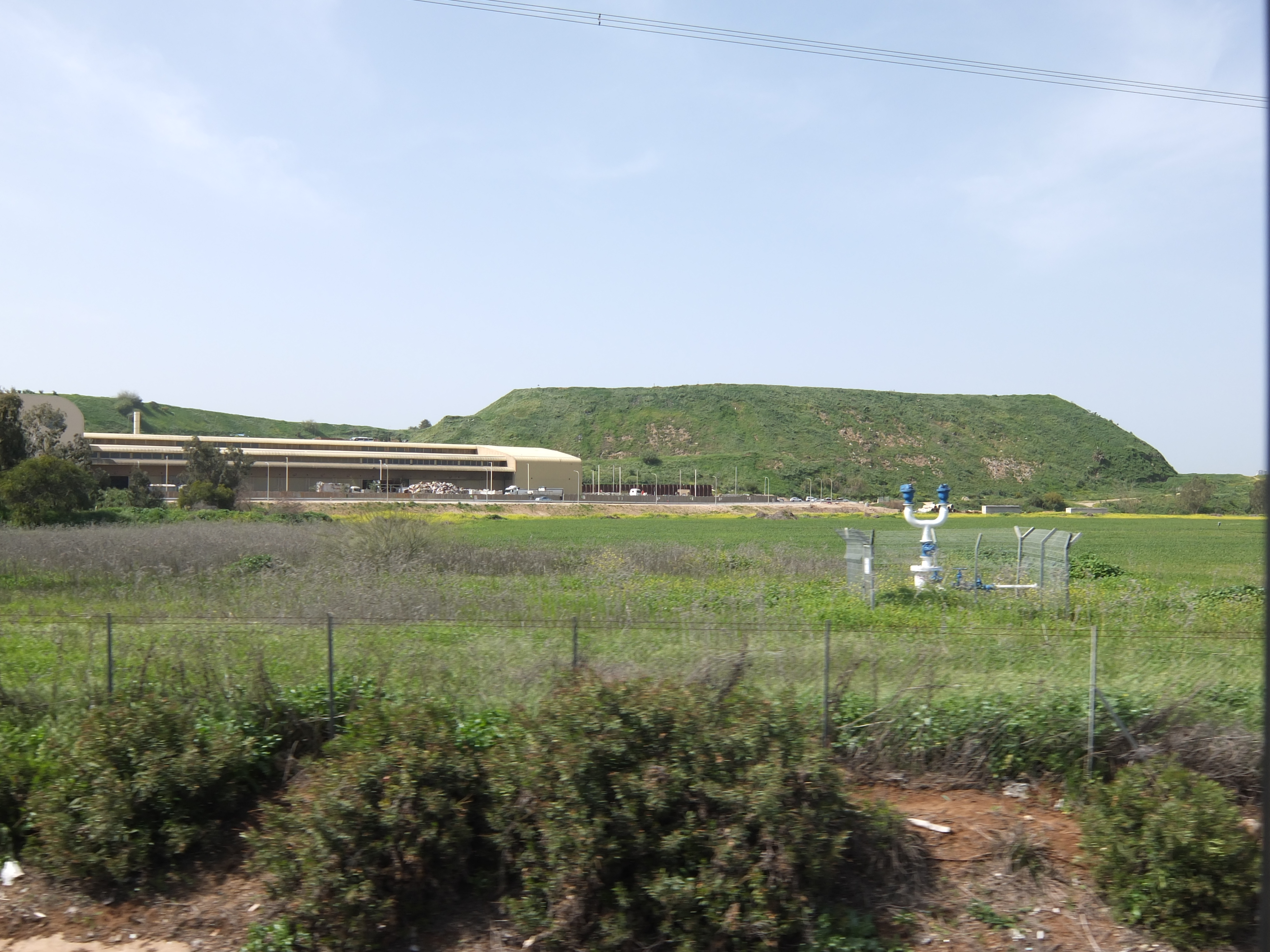 Landfill in Israel, where the old village of Benei Barak used to stand